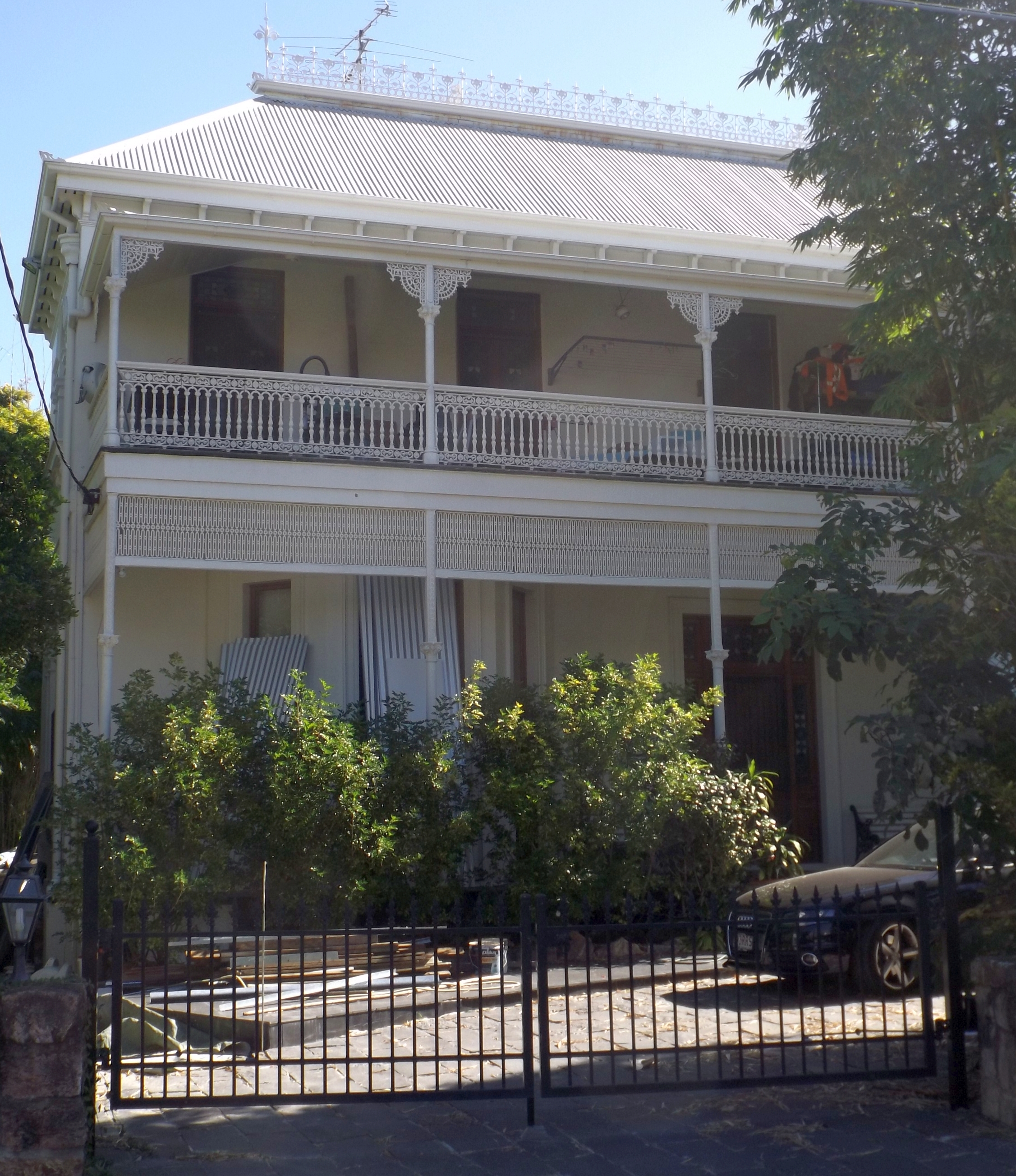 Photo of Woolahra residence at Hamilton, Brisbane, Queensland, Australia.